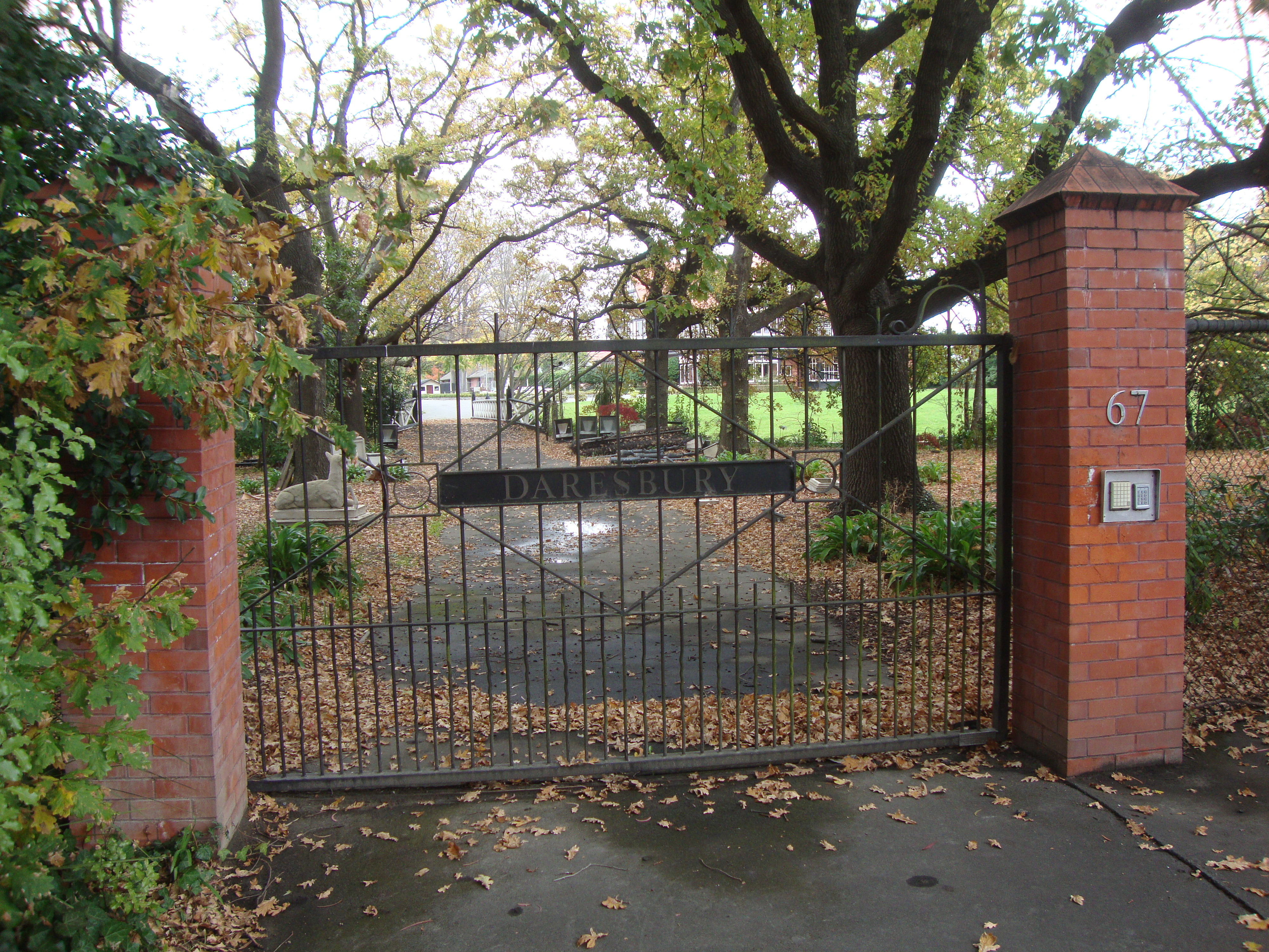 Daresbury as seen from the Fendalton Road entrance.